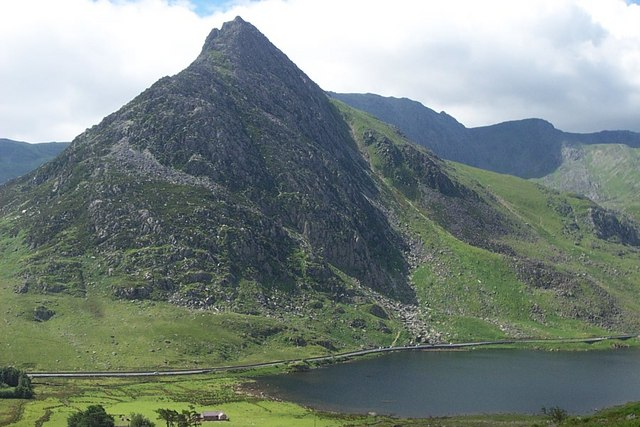 Tryfan from the Glan Dena Footpath. A Northface view of Tryfan and Llyn Ogwen from the Glan Dena footpath on an ascent of Pen yr Ole Wen at grid reference SH 66710 61432.